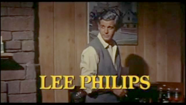 Lee Philips is Michael Rossi in "Peyton Place"